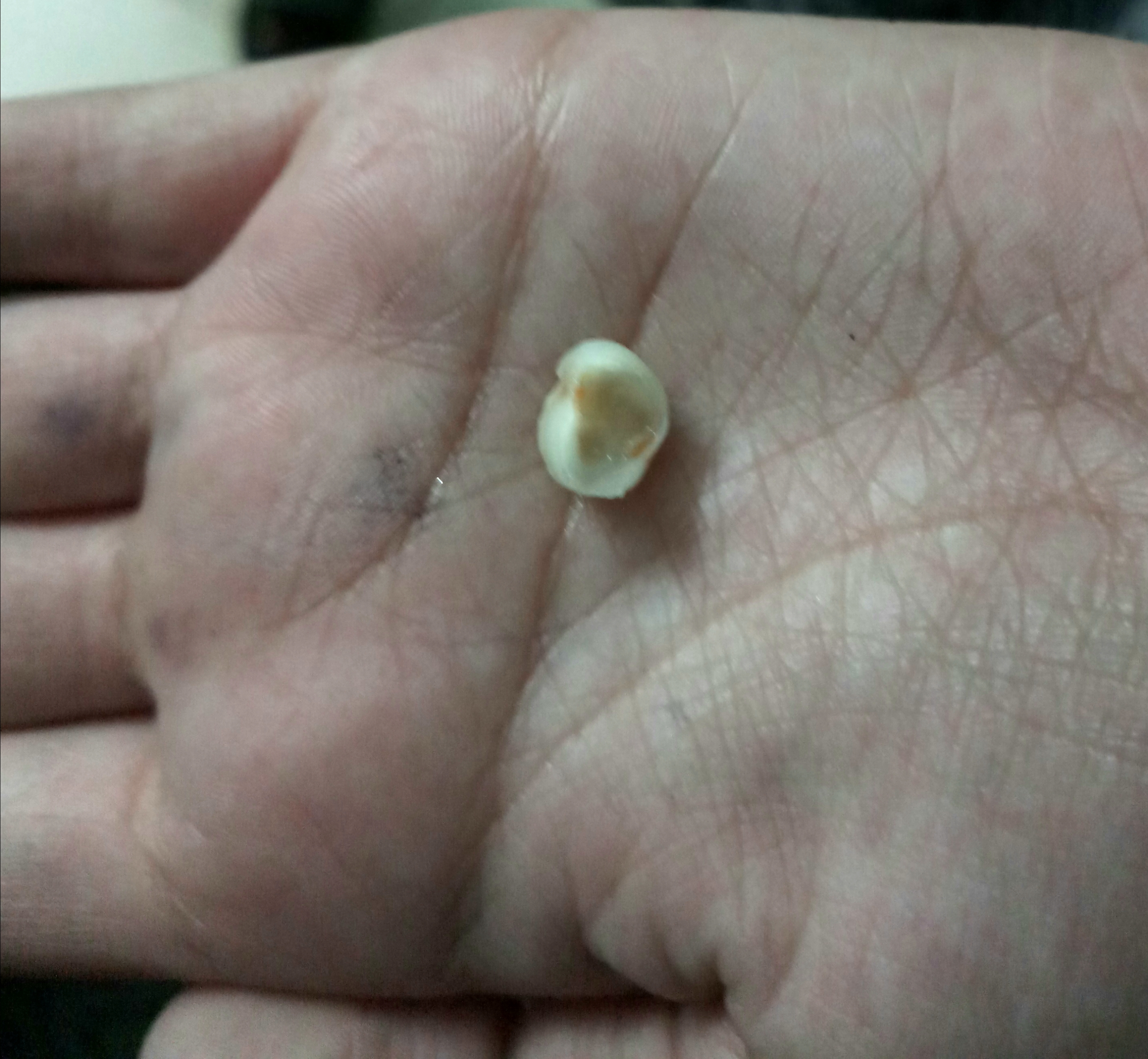 first molar teeth